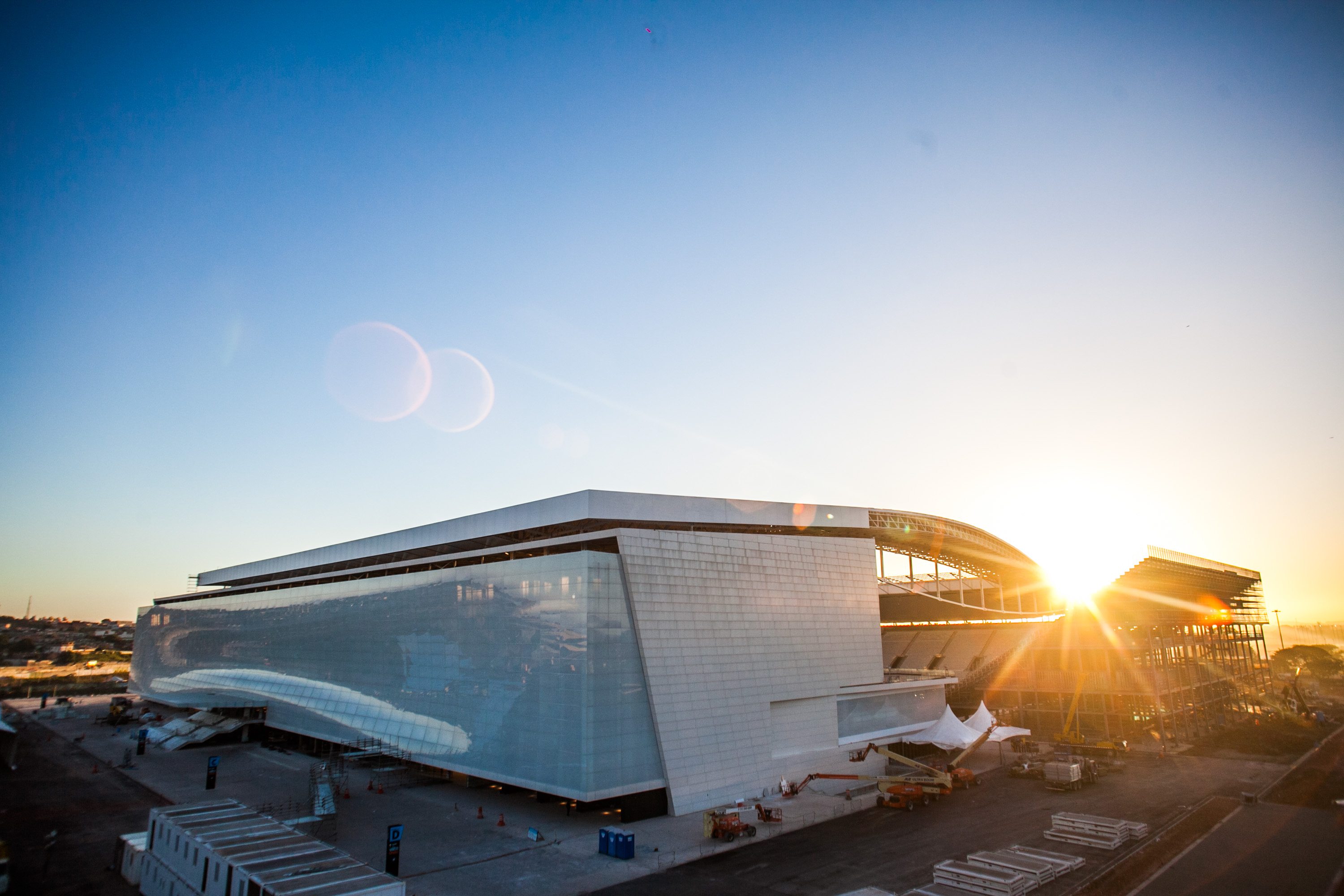 Arena Corinthians West Building